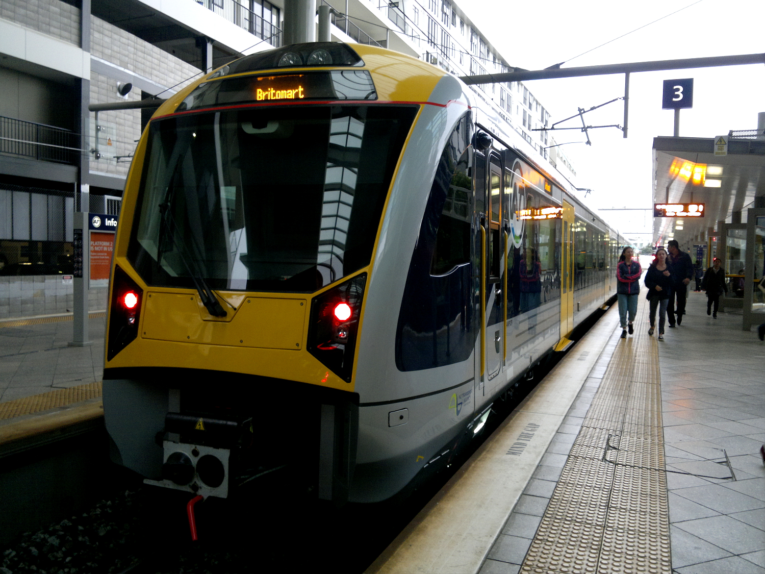 AMP 129 at Newmarket station on its first day of public service.